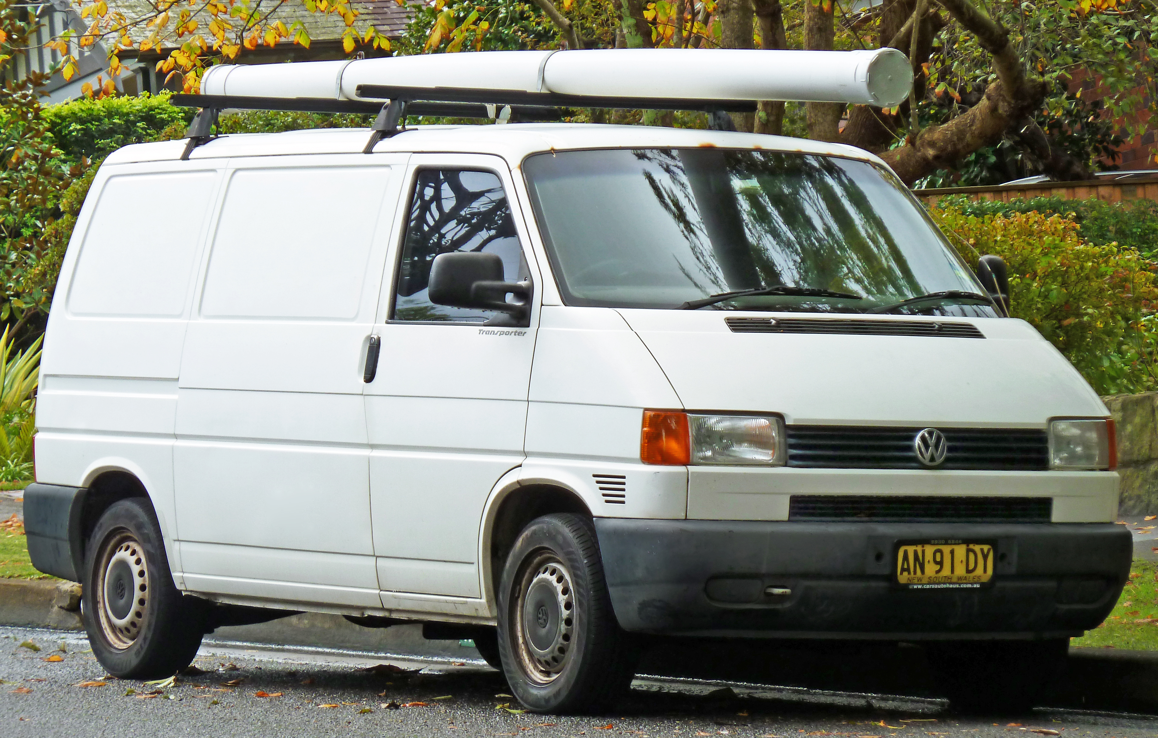 1999 Volkswagen Transporter (70) 2.0 SWB van. Photographed in Roseville, New South Wales, Australia.